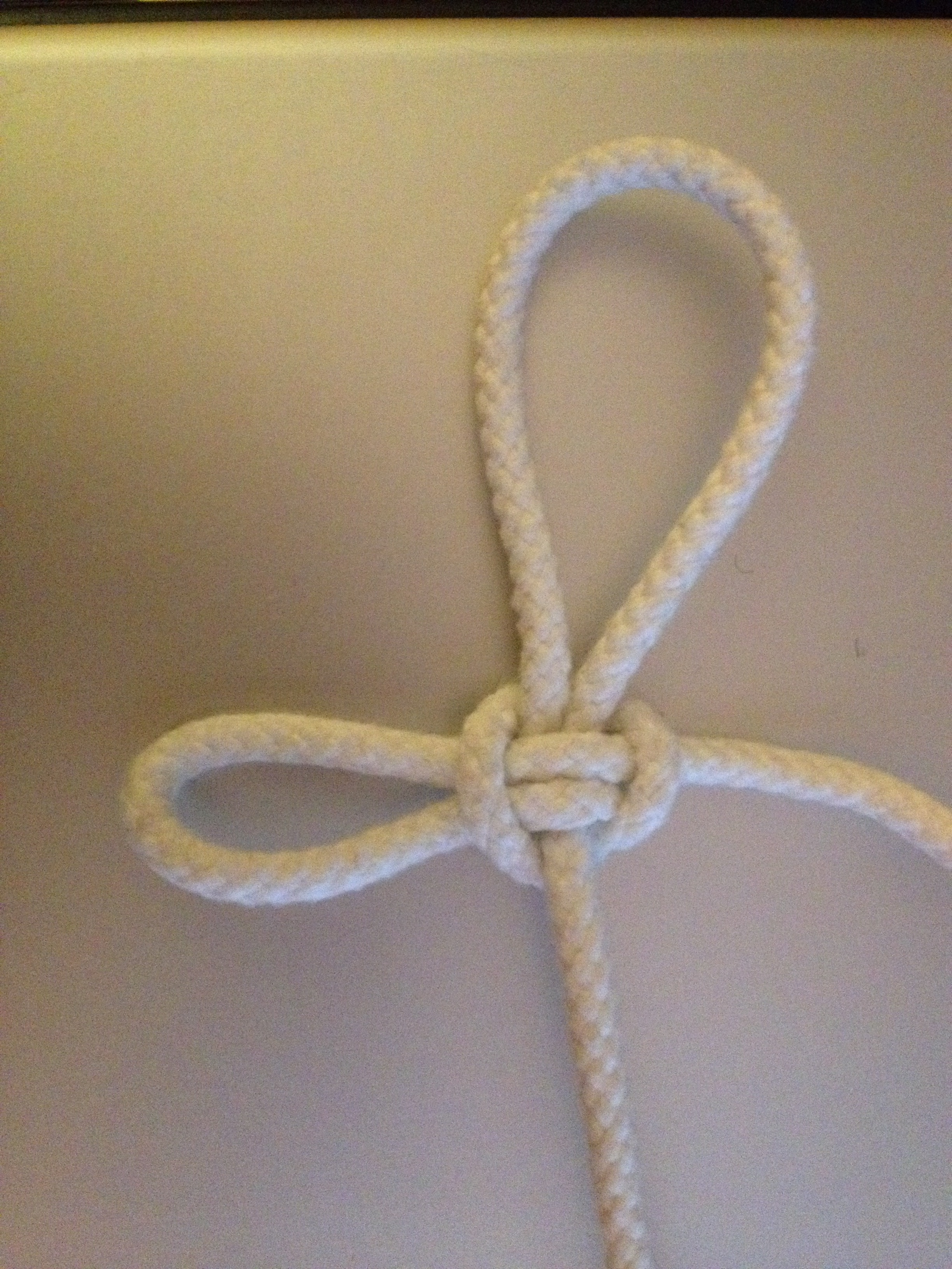 Sliding butterfly knot (sliding, locking, exploding, non-whimpering). Knot technique is from an article by Peter Suber, Richmond, Indiana, U.S.A. .